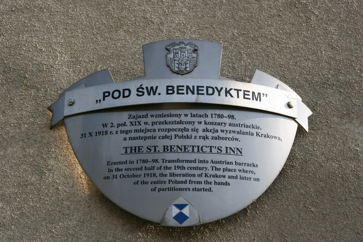 The St.Benedict's Inn, XVIIc, Kraków, Poland